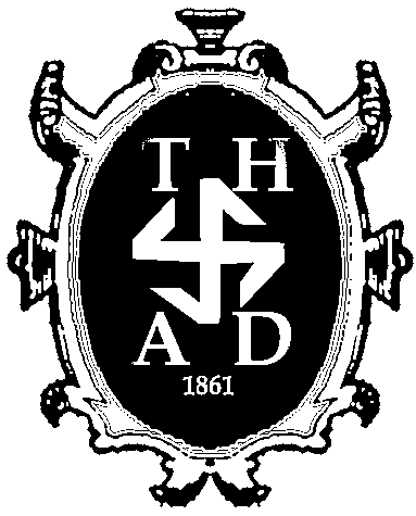 Drawing of Theoderich Hagn's coat of arms, including swastika which 6-year old Hitler saw while in school.